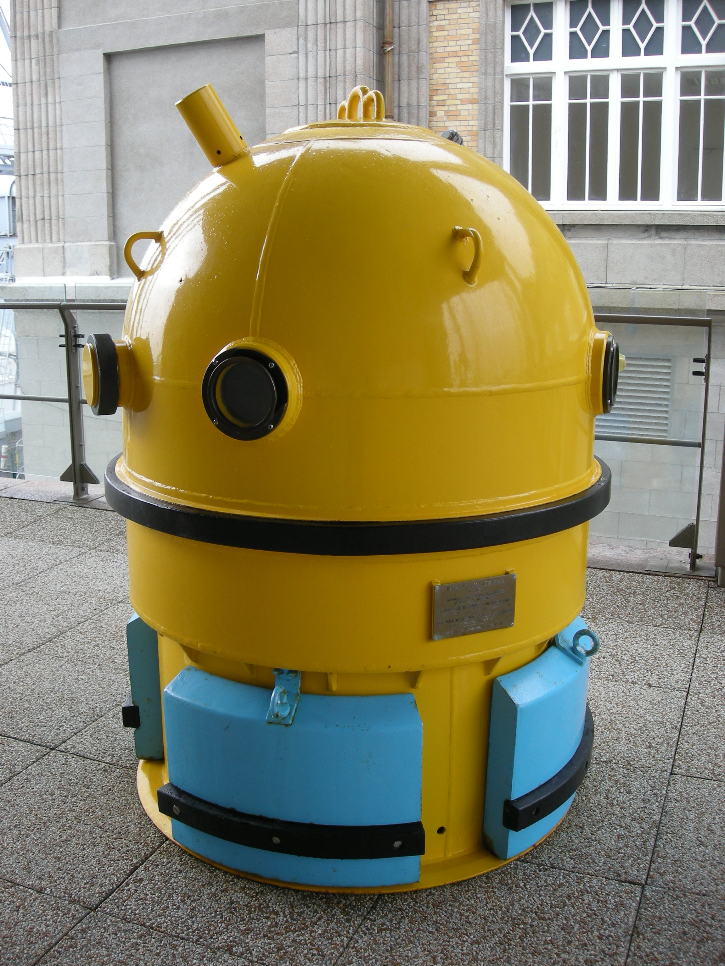 Dry bell / submersible decompression chamber